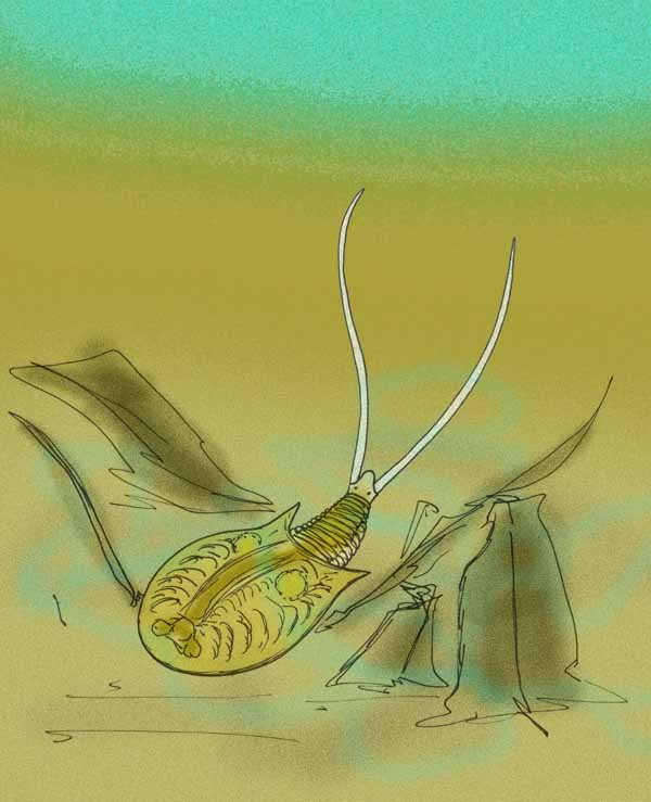 Reconstruction of the Cretaceous notostracan Chenops yixianensis, from the Yixian Formation of Inner Mongolia.